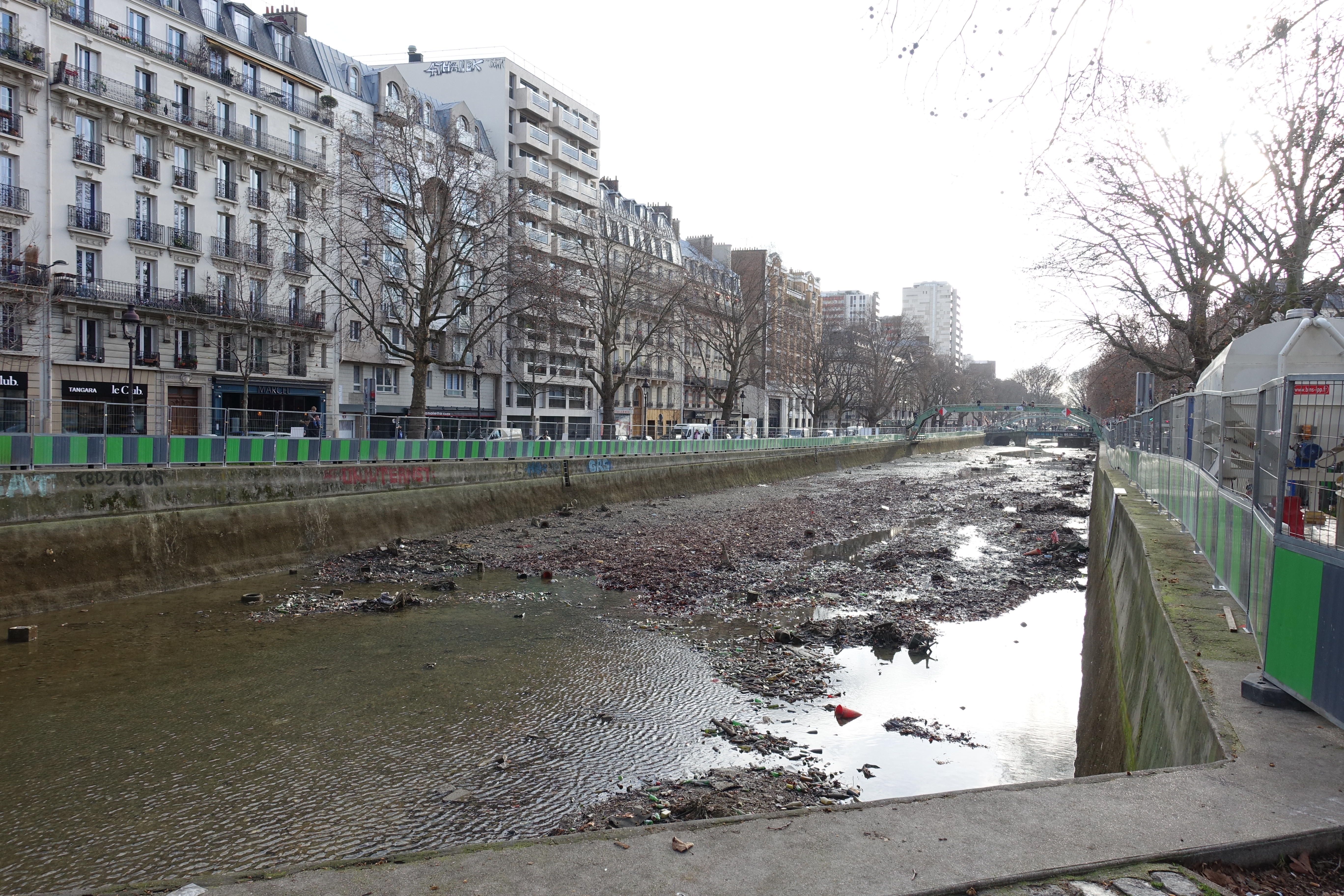 Drained Canal Saint-Martin @ Paris